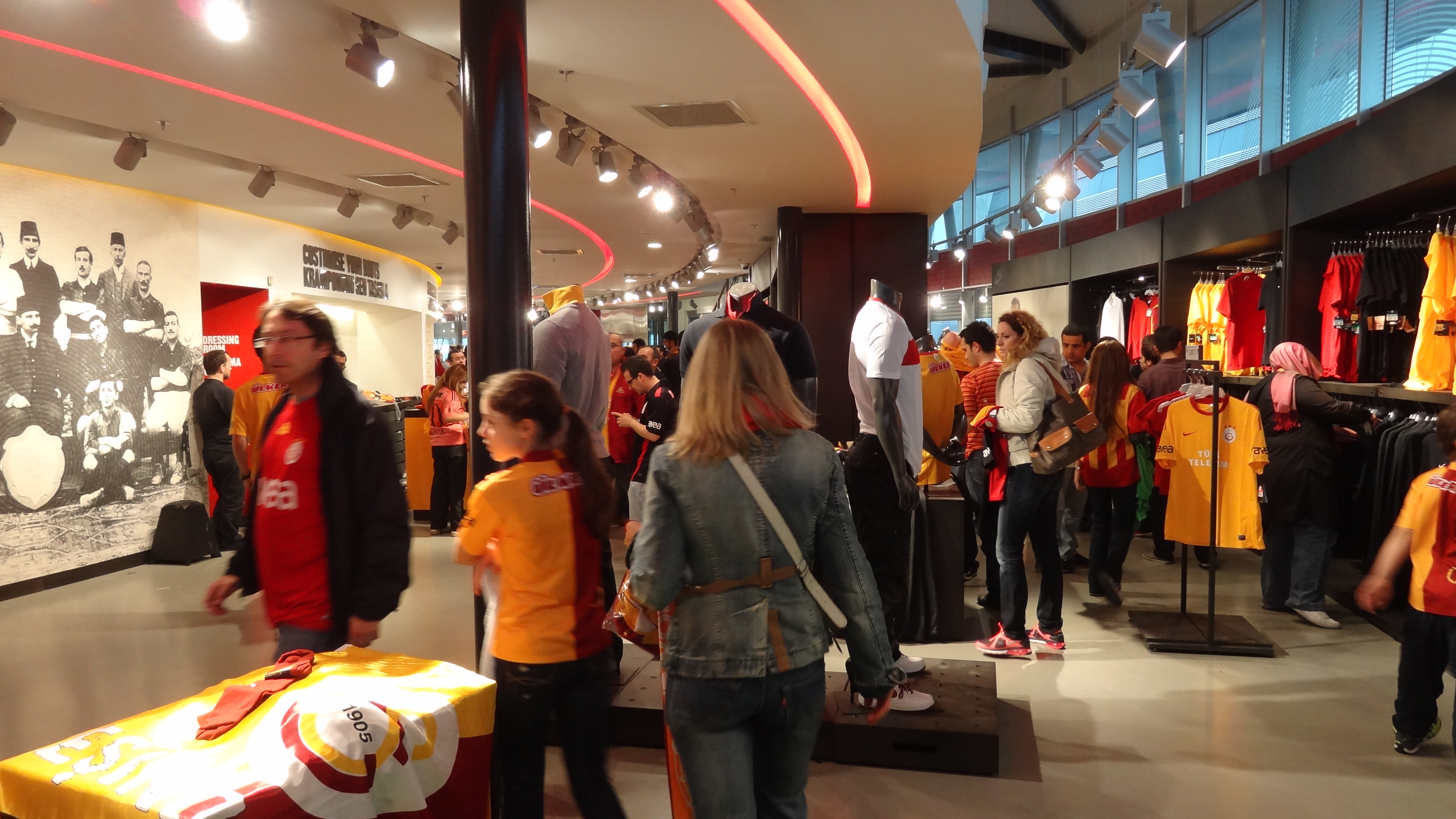 Ali Sami Yen Spor Kompleksi Galatasaray Store Interior view 1